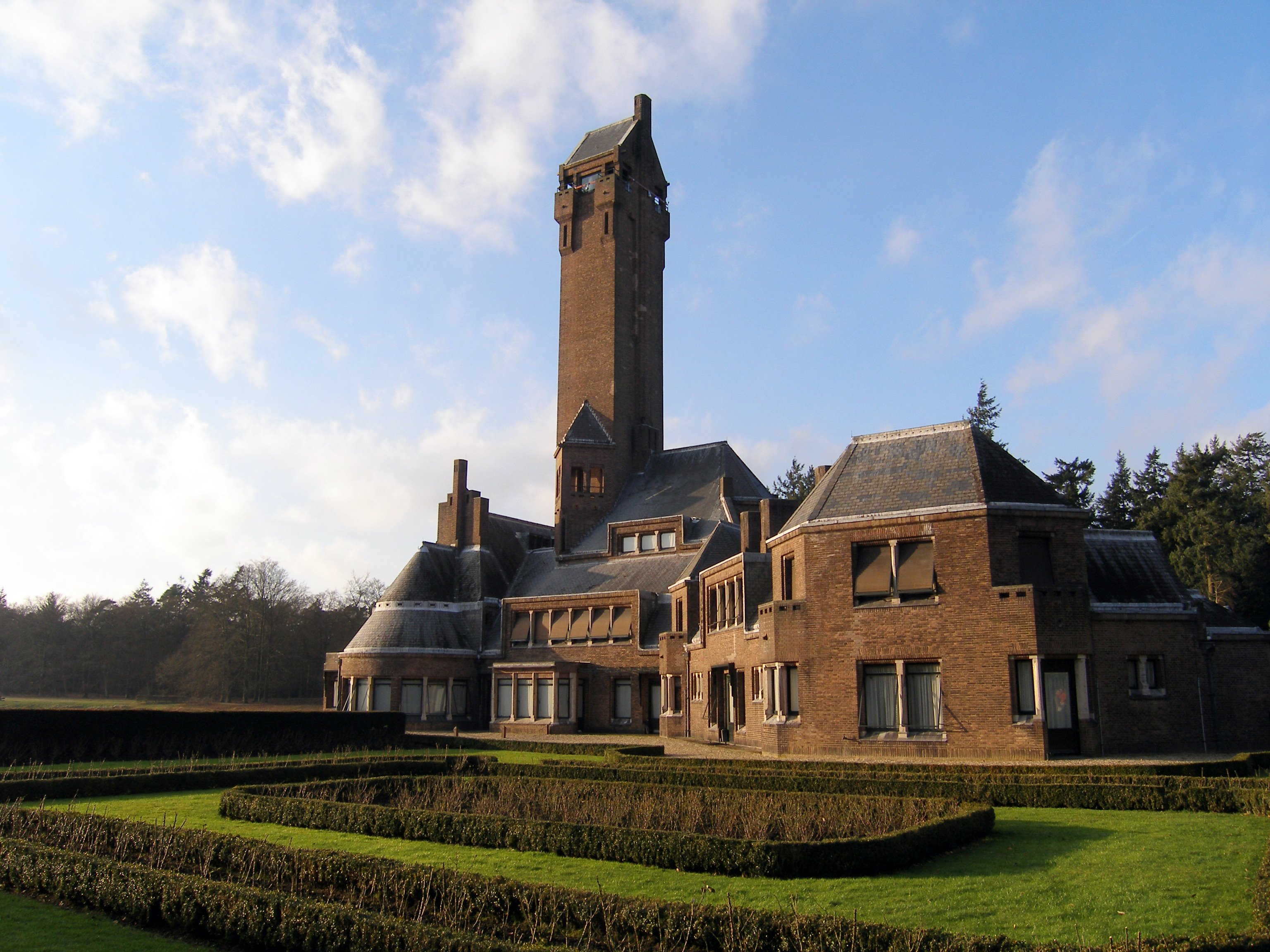 Jachthuis Sint-Hubertus (St. Hubertus Hunting Lodge) at National Park De Hoge Veluwe, The Netherlands. Designed by H.P. Berlage in 1914.